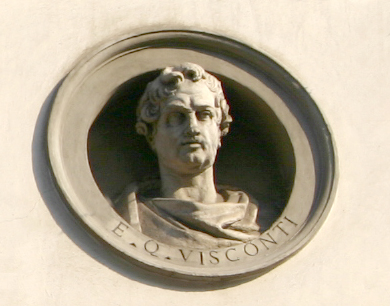 Ennio Quirino Visconti. Detail from the series of decorative busts (portraying "distinguished Italians") on the facade Palazzo Brentani, in via Manzoni street at Milan (1829/30). Picture by Giovanni Dall'Orto, April 14 2007.